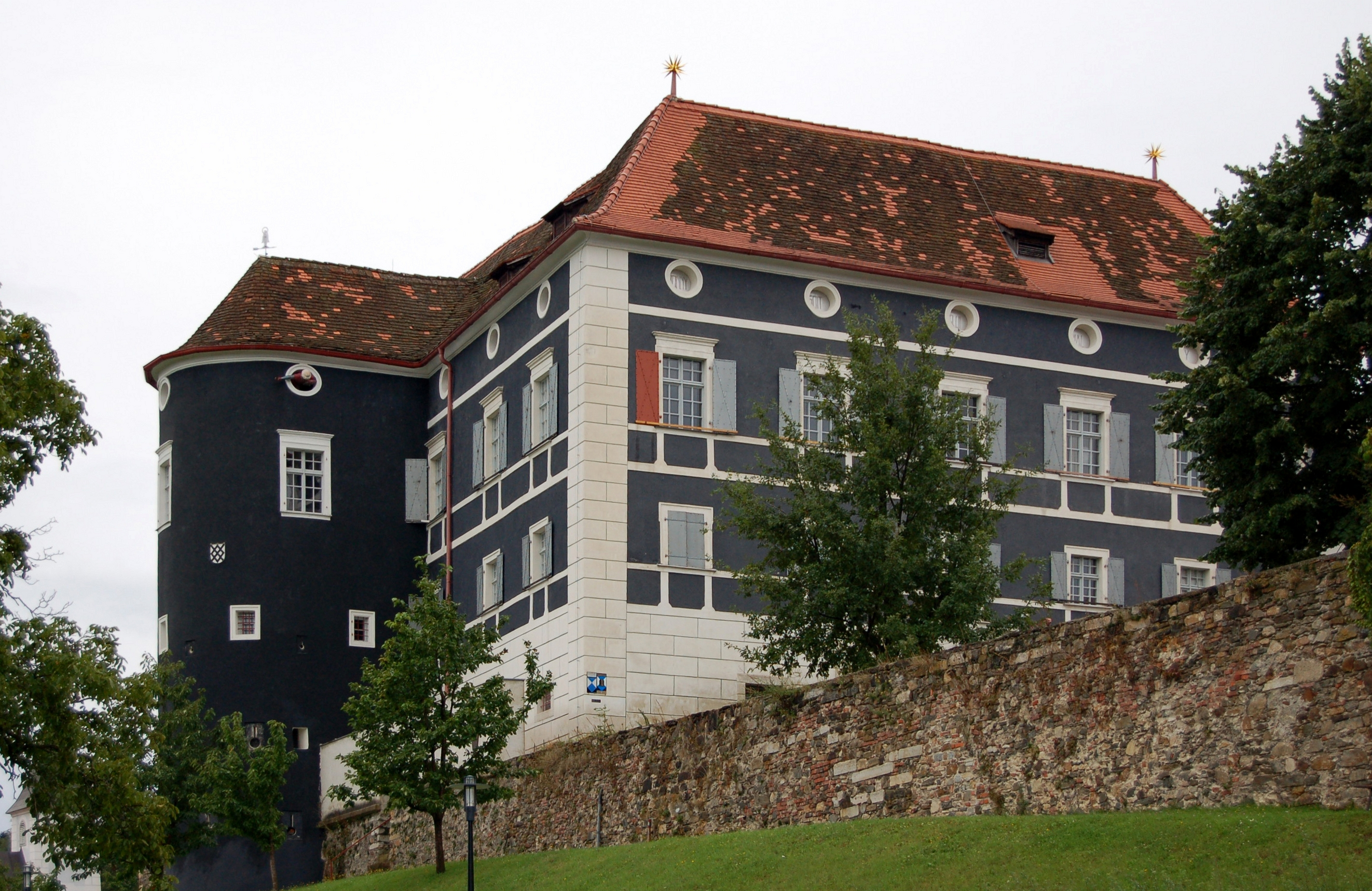 Castle Schloss Aichberg, Eichberg, Styria, Austria